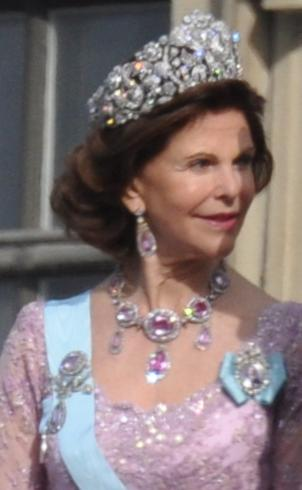 Wedding of Victoria, Crown Princess of Sweden, and Daniel Westling; Queen Silvia of Sweden